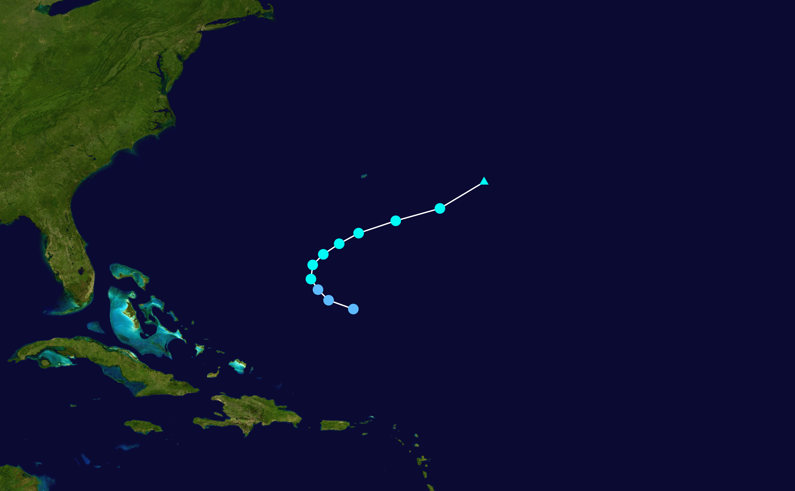 Tropical Storm Ernesto (1982) track. Uses the color scheme from the Saffir-Simpson Hurricane Scale.